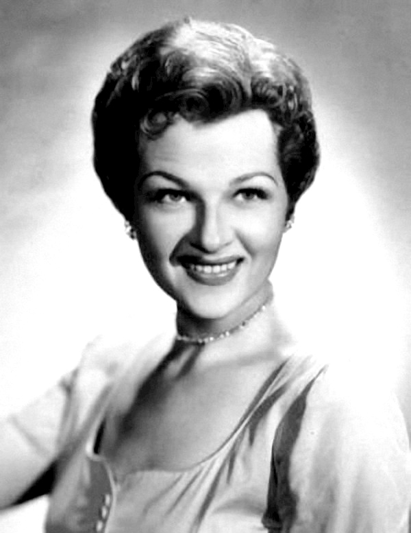 Publicity portrait of Jo Stafford from her 1950s TV show The Jo Stafford Show (1954 TV series)